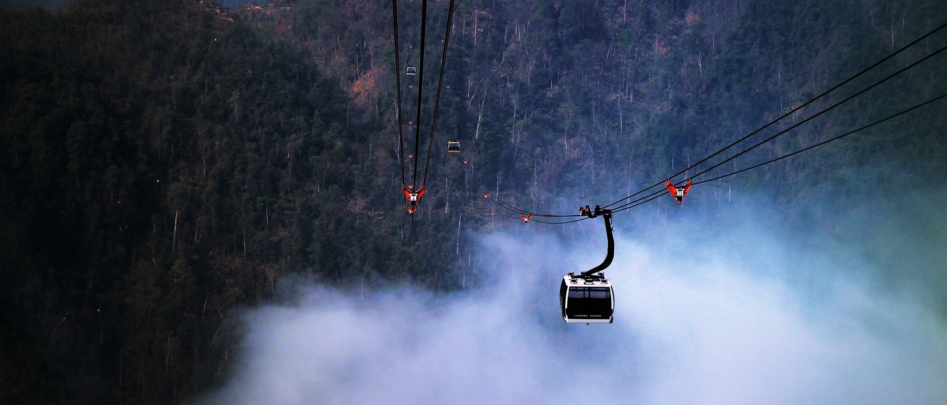 Fansipan peak uplink